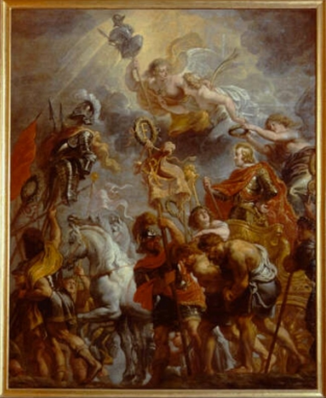 Jan van den Hoecke, Triumphal Entrance of Cardinal Prince Ferdinand of Spain into Antwerp, Oil on canvas, 405 x 328. Uffizi Museum